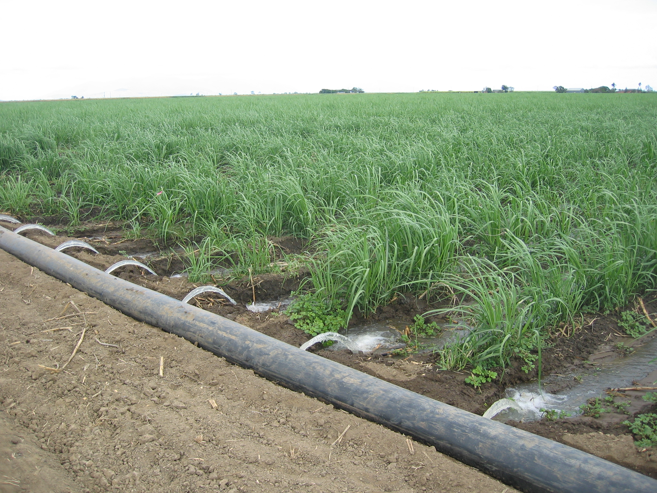 Furrow Irrigated sugar cane in Northern Queensland, Australia